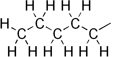 chemical structure of n-pentyl radical